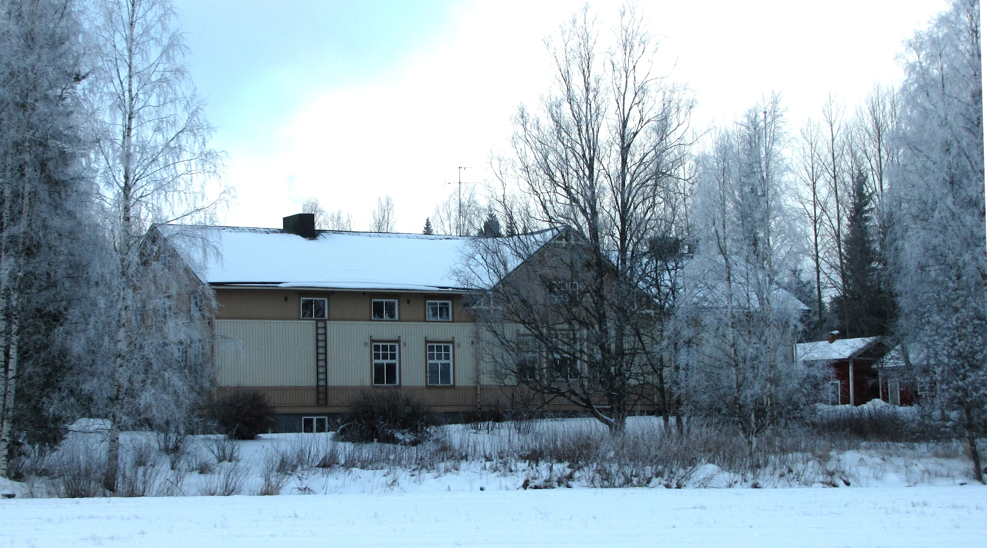 Keskikylä school in Keskikylä village, Jalasjärvi, Finland.